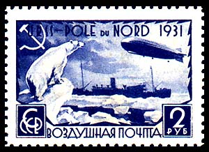 Graf Zeppelin and Icebreaker "Malygin". Airship LZ 127 "Graf Zeppelin" (polar flight) and Icebreaker "Malygin" transferring mail. USSR stamp; air mail; 2 rub. Painter: I. Dubasov.